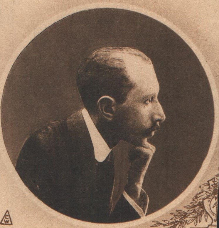 Photo of Hebrew author Zalman Anochi